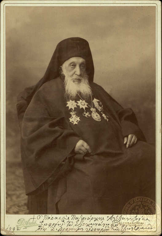 Sophronius IV of Alexandria, later Sophronius III of Constantinople